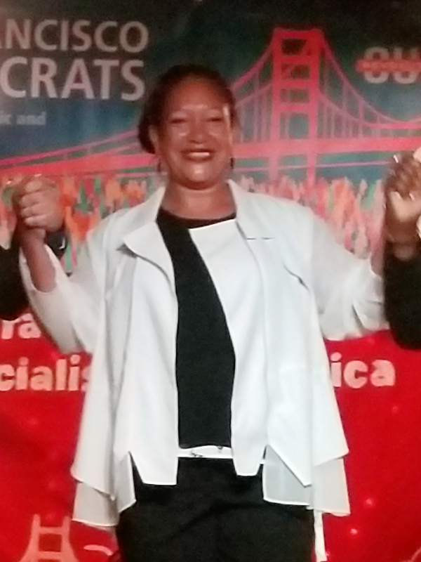 Cat Brooks at a fundraiser at Bottom of the Hill in San Francisco, California, United States